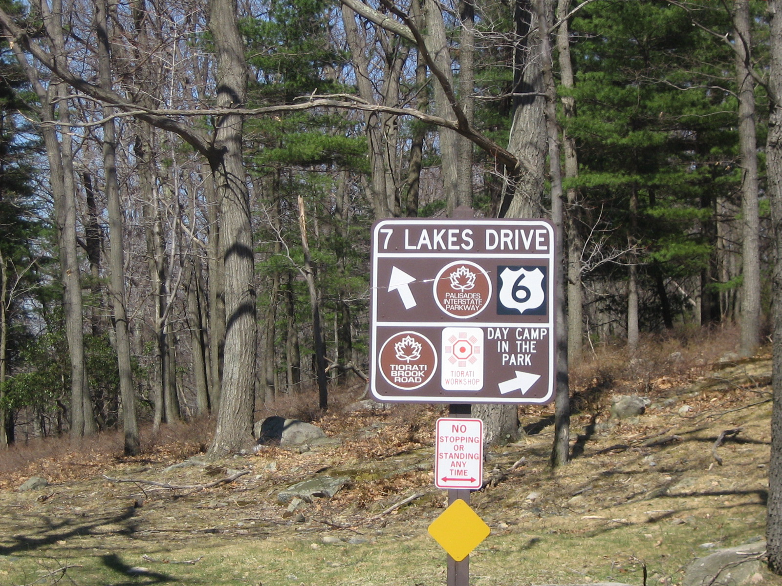 Seven Lakes Drive directional sign at the Tiorati Circle, a traffic circle on the northwest corner of Lake Tiorati in Harriman State Park, that includes Seven Lakes Drive, Arden Valley Road and Tiorati Brook Road.